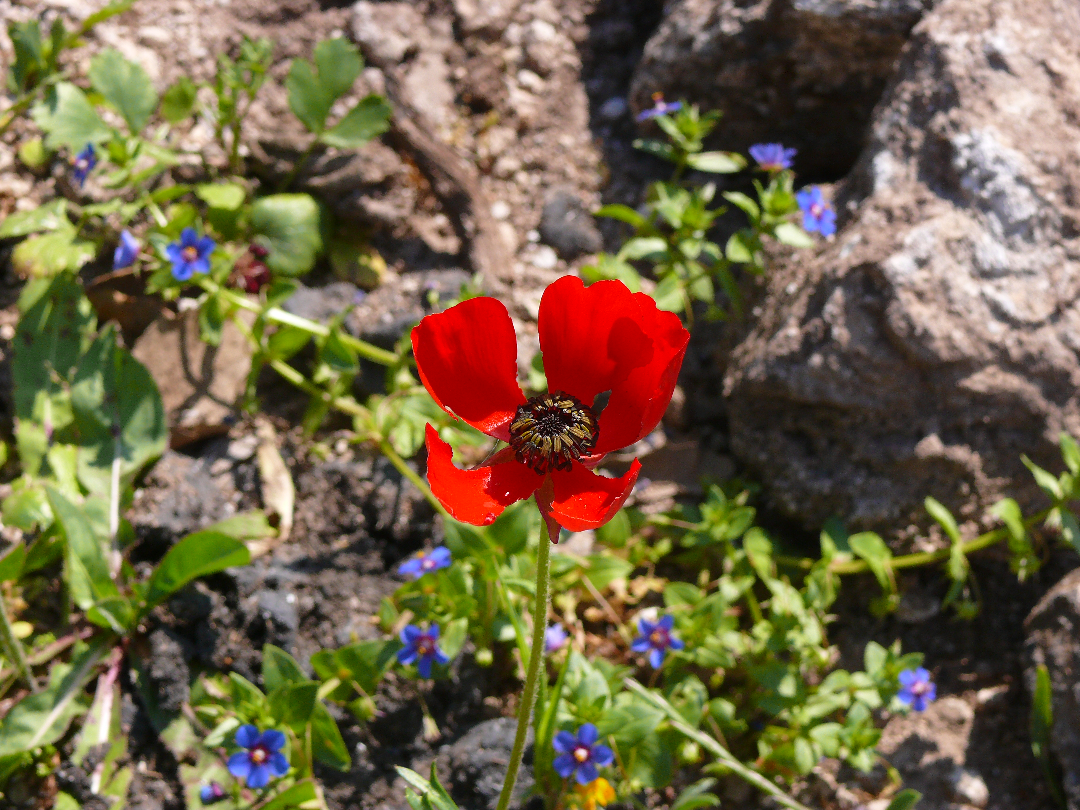 Ranunculus asiaticus surrounded by Anagallis arvensis